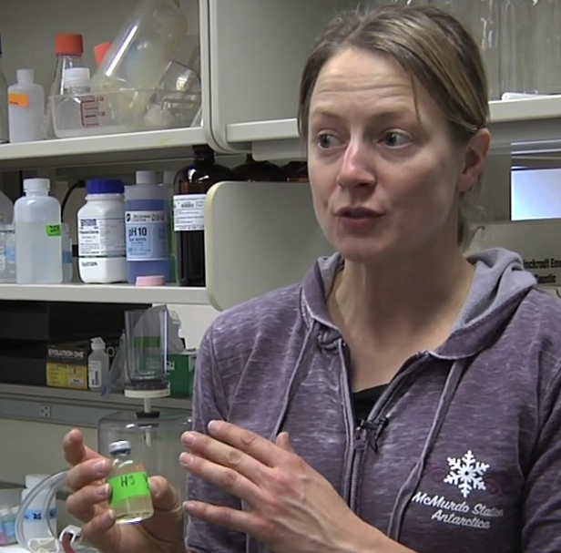 Jill Ann Mikucki is an American microbiologist, educator and Antarctic researcher, best known for her work at Blood Falls demonstrating that microbes can grow below ice in the absence of sunlight. These pictures are from an article and video posted at Where all graphics are said to be free although attribution is requested.... and is given here with thanks